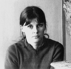 Photograph of the Finnish sculptor Marjatta Palasto (1943–).